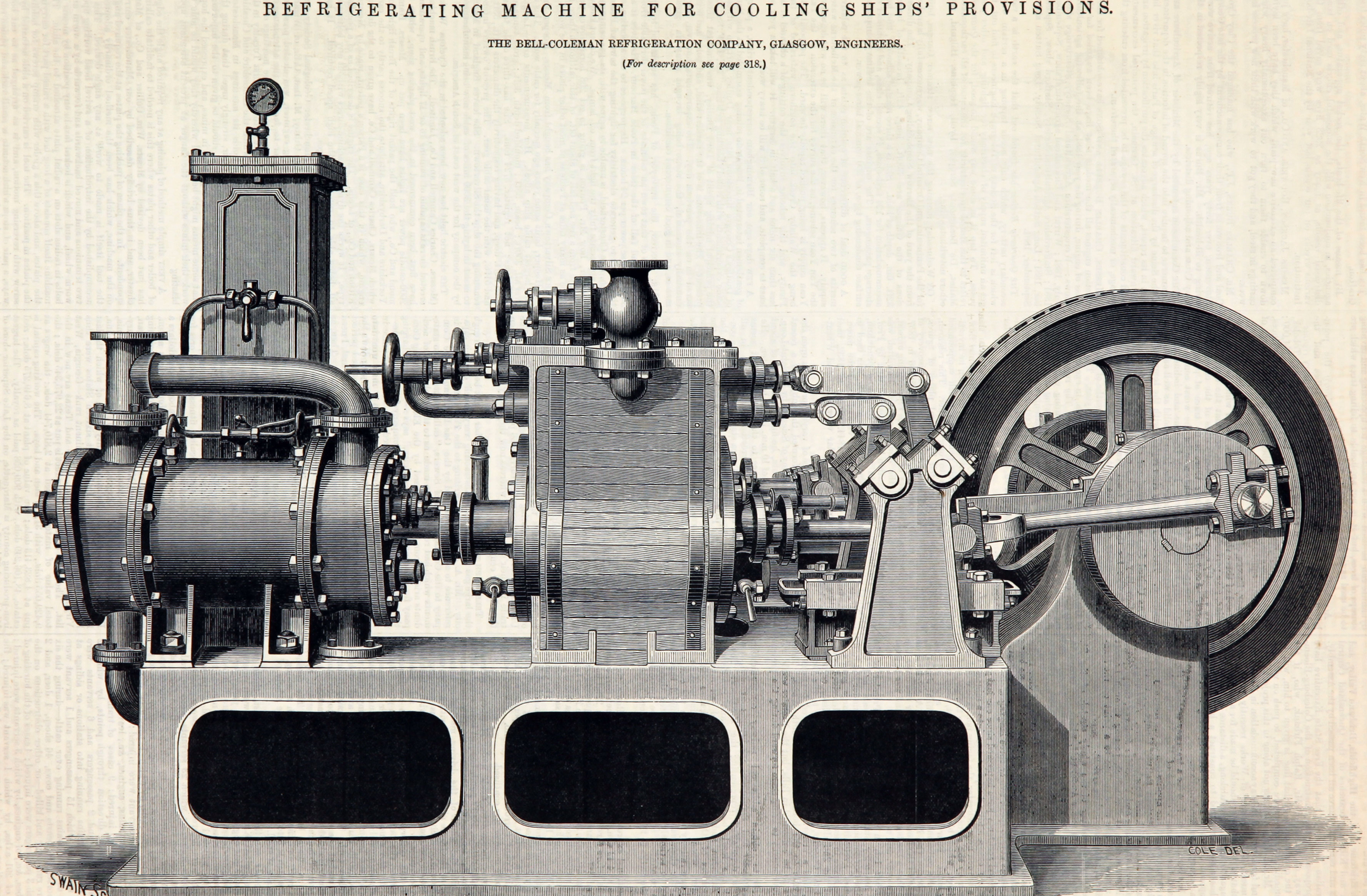 "Refrigerating machine for cooling ships' provisions" - Bell-Coleman Refrigeration Co. 1881 Bell-Coleman Refrigeration Co of Glasgow. c.1877 Brothers John and Henry Bell, and James Coleman, of Glasgow succeeded in developing an open-cycle refrigeration system for use on board ships.